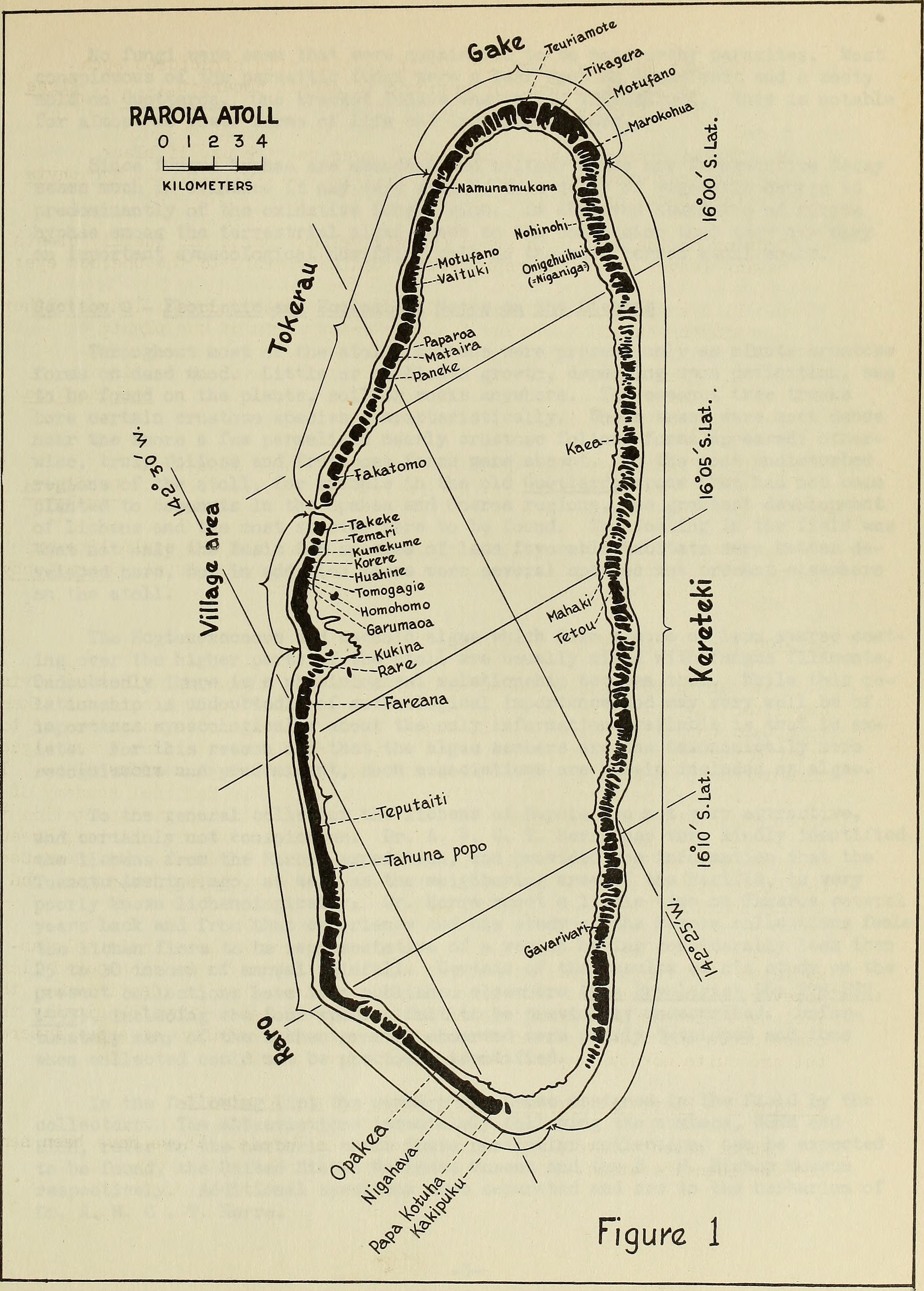 Title: Atoll research bulletin Year: 1951 (1950s) Authors: Smithsonian Institution. Press; National Research Council (U. S. ). Pacific Science Board; Smithsonian Institution; National Museum of Natural History (U. S. ); United States. Bureau of Sport Fisheries and Wildlife Subjects: Coral reefs and islands; Marine biology; Marine sciences Publisher: Washington, D. C. : (Smithsonian Press) Text Appearing Before Image: ' Text Appearing After Image: '